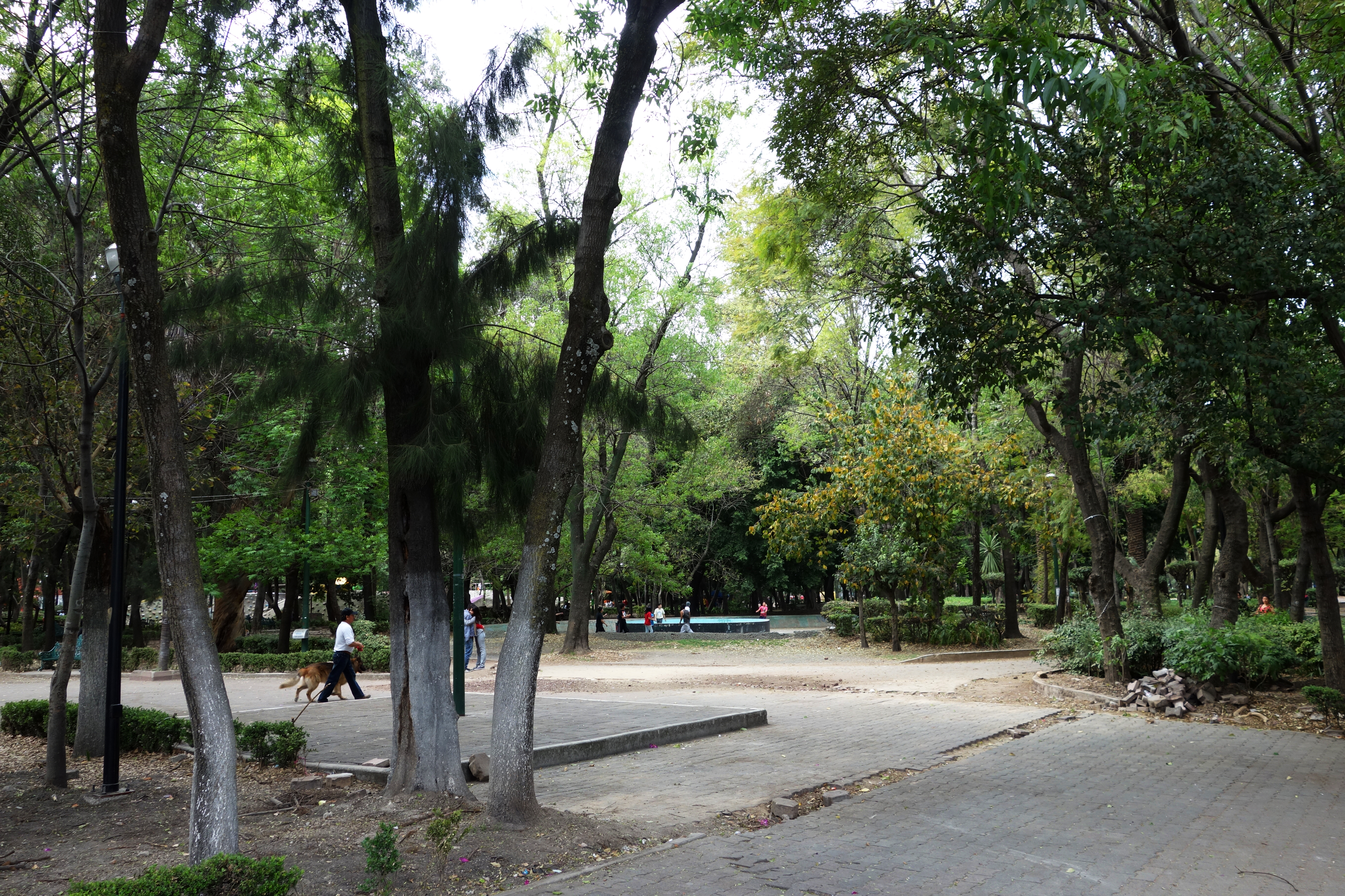 Jardín Ramón López Velarde in Mexico City